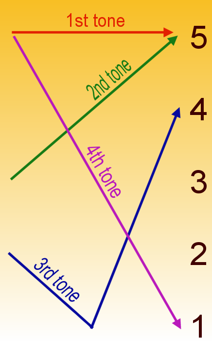 Chart showing the relative changes in pitch for the four tones of Mandarin Chinese. A german version in SVG is available under Image:Vier Toene des Hochchinesischen.svg though rendered badly.